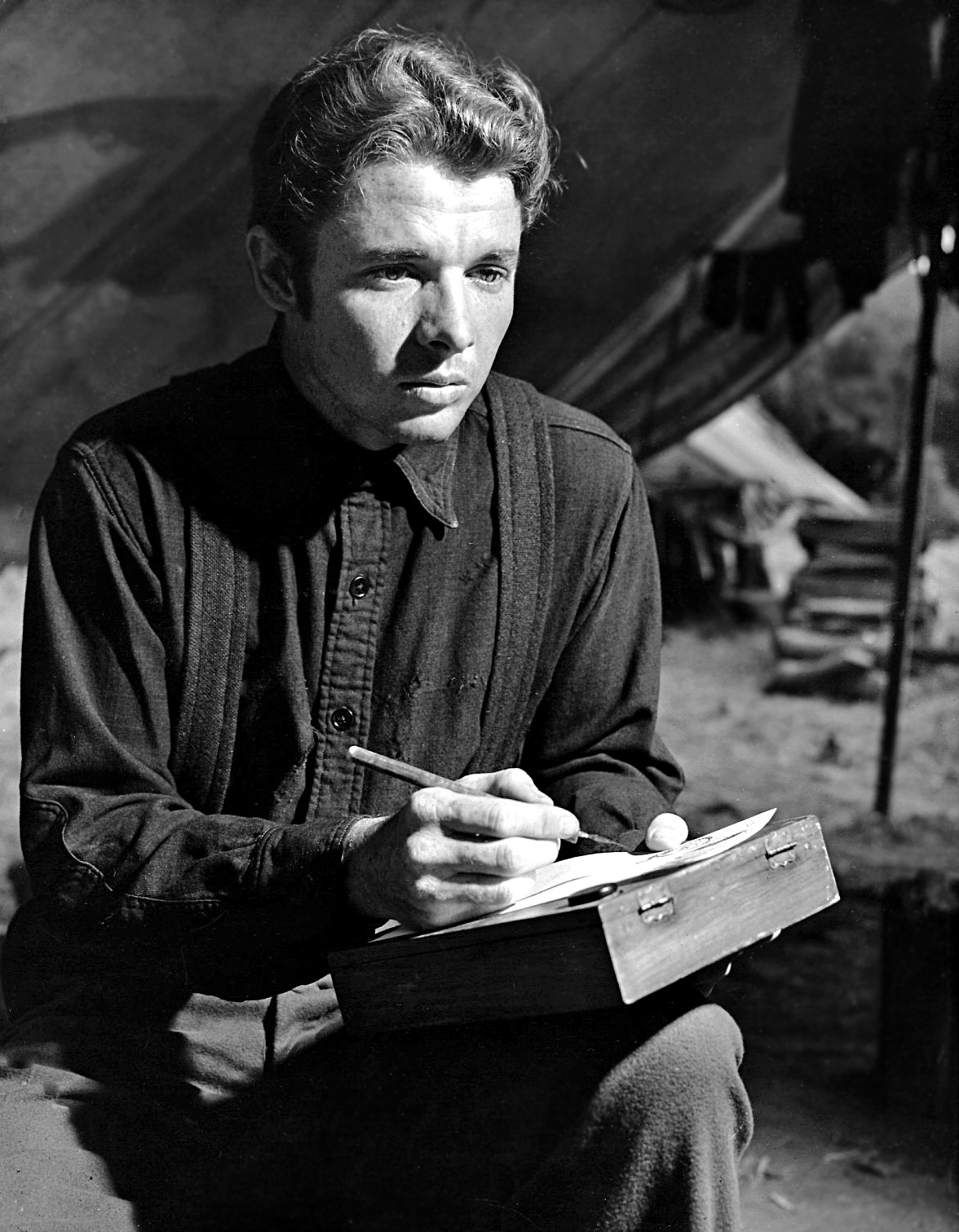 Original studio publicity photo of Audie Murphy for film The Red Badge of Courage. No writing on back.